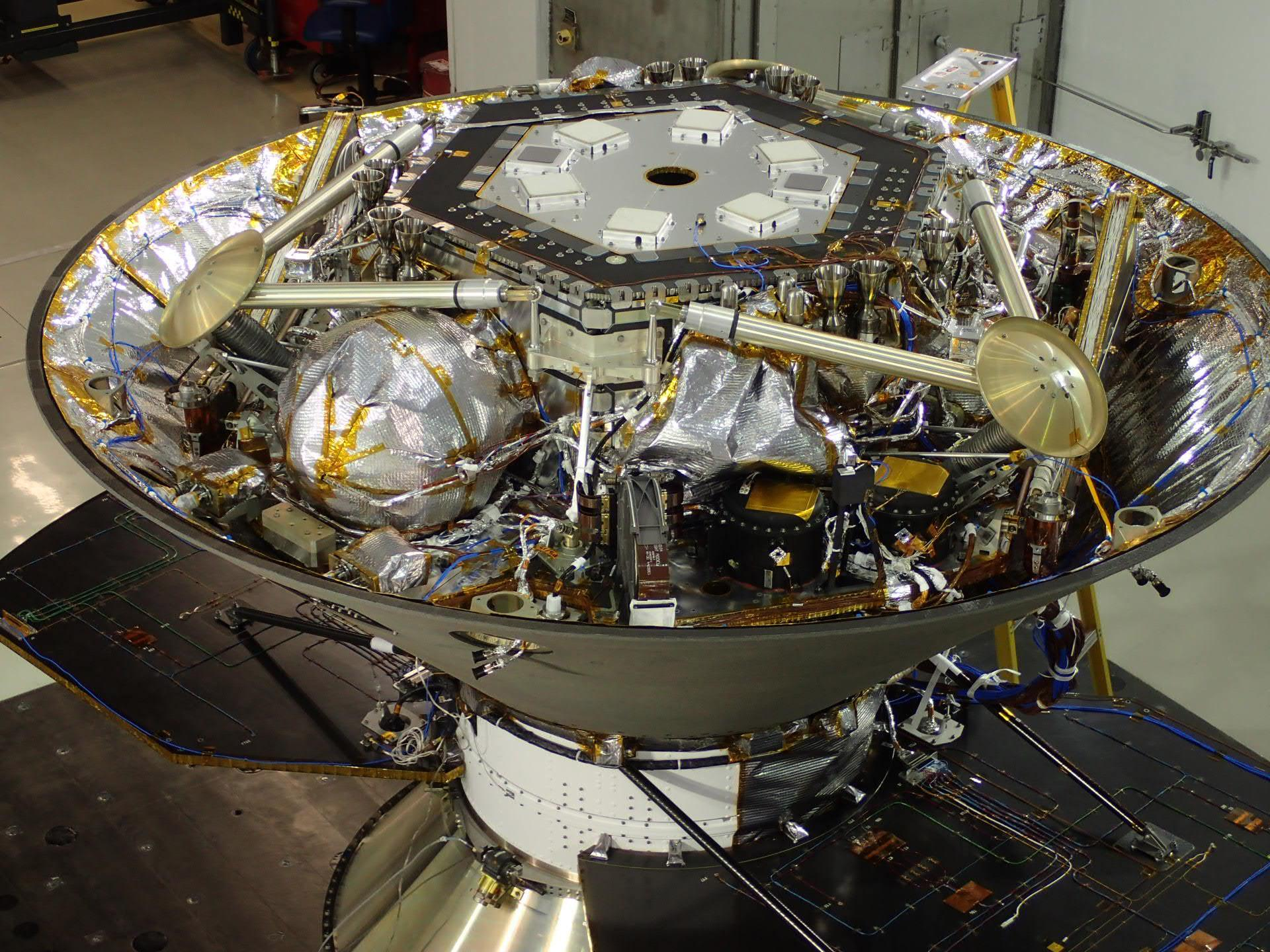 In this photo, NASA's InSight Mars lander is stowed inside the inverted back shell of the spacecraft's protective aeroshell. It was taken on July 13, 2015, in a clean room of spacecraft assembly and test facilities at Lockheed Martin Space Systems, Denver, during preparation for vibration testing of the spacecraft. InSight, for Interior Exploration Using Seismic Investigations, Geodesy and Heat Transport, is scheduled for launch in March 2016 and landing in September 2016. It will study the deep interior of Mars to advance understanding of the early history of all rocky planets, including Earth.